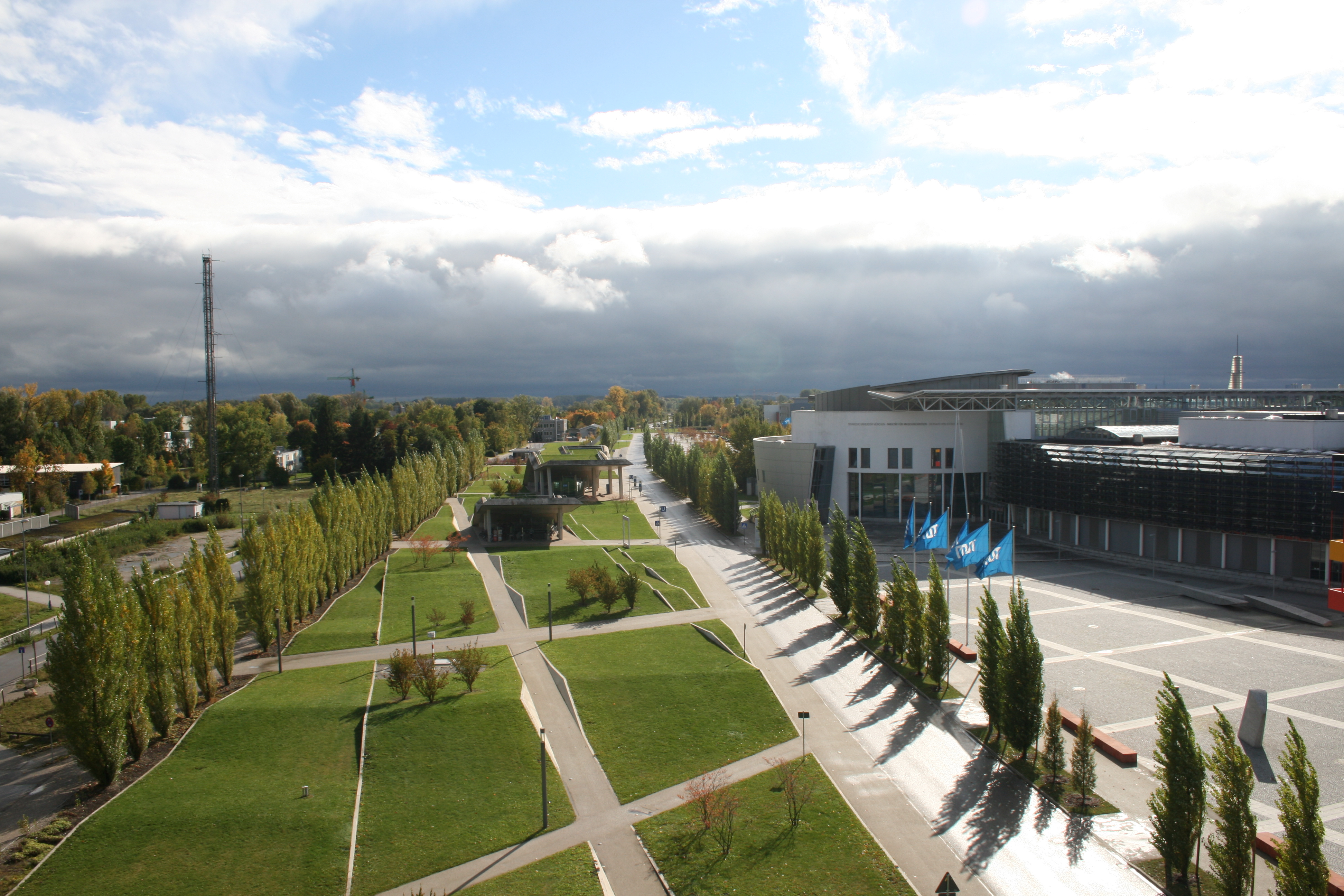 Garching Research Center (Garching-Forschungszentrum). View from the Institute of Advance Study (IAS) of the TU Munich.